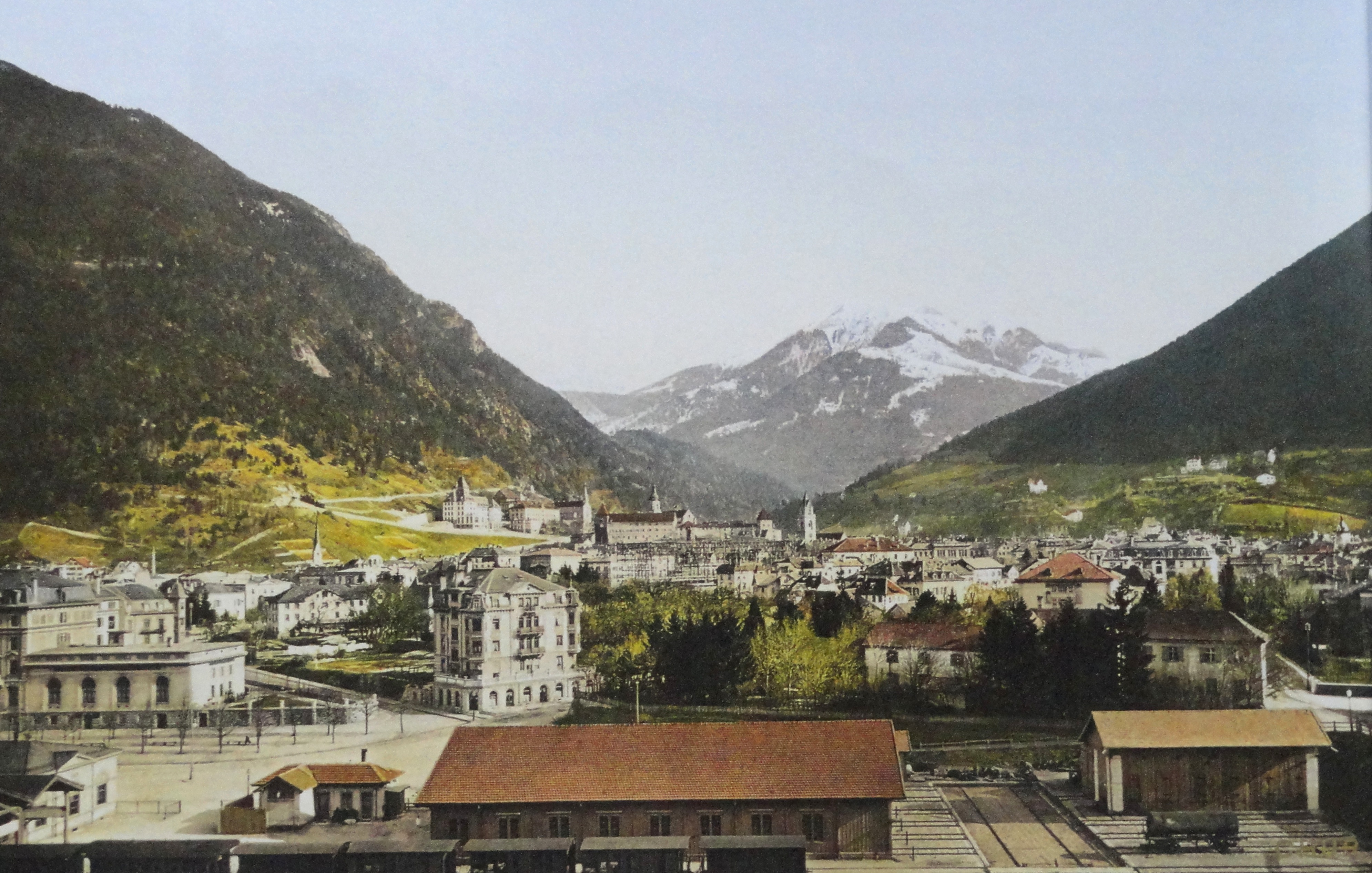 Chur 1903